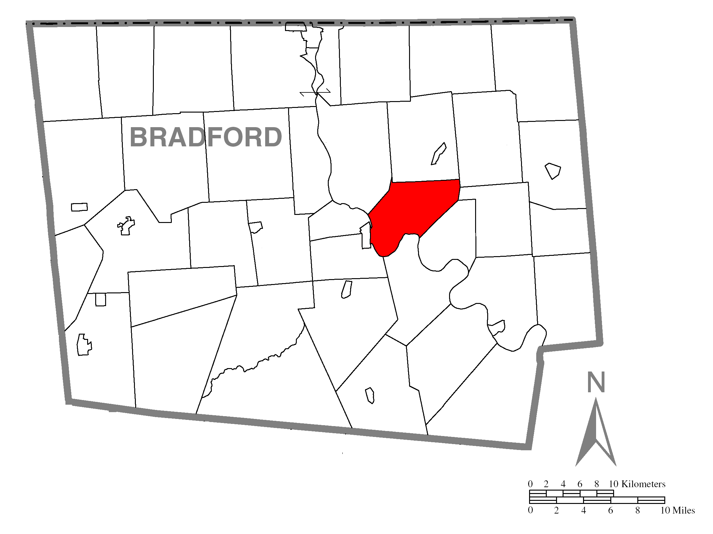 A map of Bradford County showing Wysox Township, Pennsylvania (alternate) highlighted on the map.